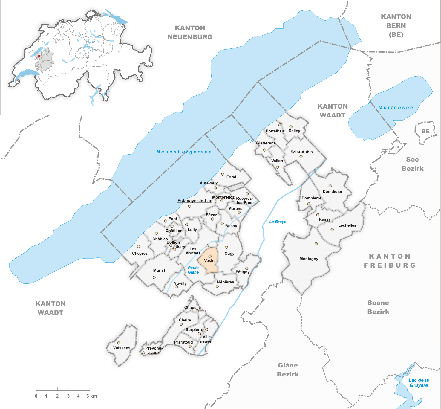 Municipality Vesin Artist: Tschubby